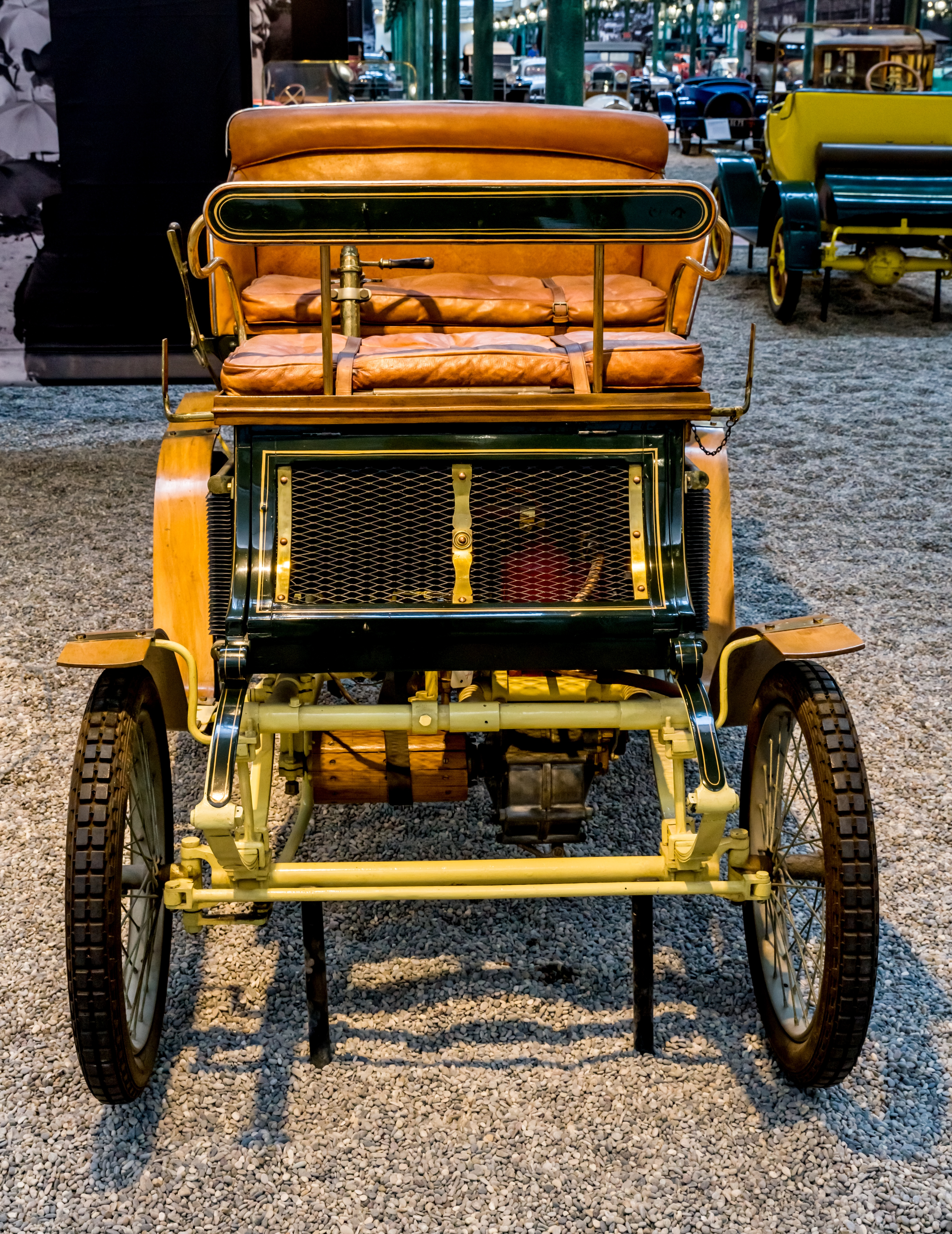 pictures from the Cité de l’Automobile – Musée National – Collection Schlump in Mulhouse, France ptictures from the 10. may 2018